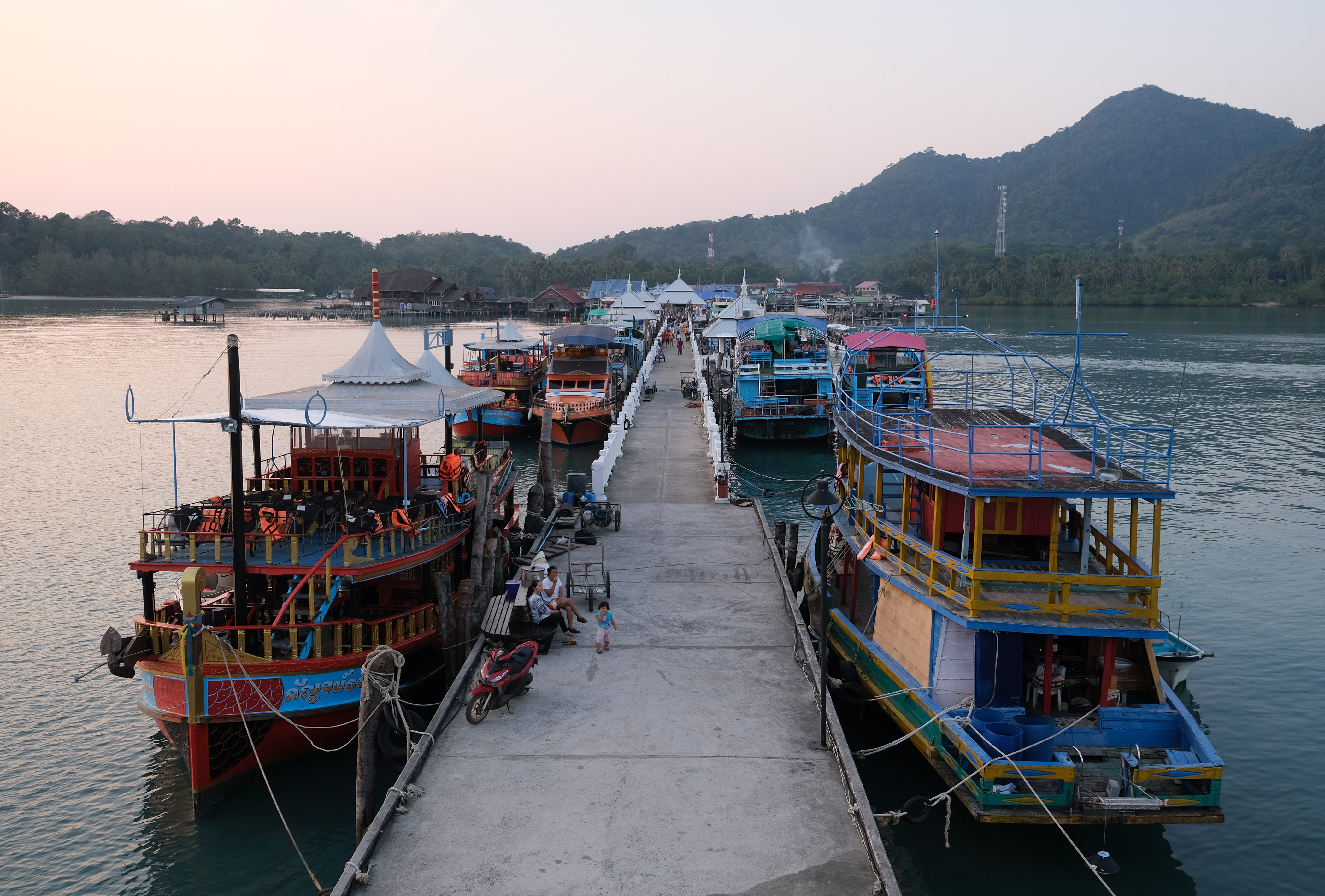 Bang Bao Pier, Koh Chang.